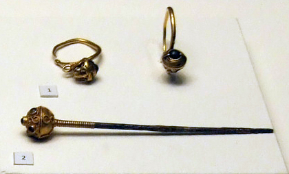 Germanic grave goods from the late Roman fortress of Keszthely-Fenékpuszta Zala County, Hungary In the center of the discovery site of Keszthely-Fenékpuszta at the southwestern end of Lake Balaton is the late Roman fortress Fenékpuszta. The rectangular layout with round side and corner towers was erected during the 4th century in the territory of the Roman province Pannonia I and belongs to the circle of so-called inner fortresses. Since the late 19th century, over 1000 burials extra and intra muros as well as 24 stone structures within the fortress have been examined. To the east of the horreum, probably in the vicinity of a wooden church, a total of 36 body burials have been dug up. Most of the burials were without grave goods, but seven graves were richly endowed. The goods are Byzantine or Byzantine-influenced products. They count among the most splendid commodities of the 6th century in Pannonia. Grave 7 of the horreum cemetery, last third of the 6th to first third of the 7th century Burial of a woman in extended supine position, with coffin vestiges and stone packing. 1. Pair of basket-shaped earrings, gold. 2. Garment pin (silver) with attached golden, spherical decorative part. Decoration of beaded wire and set stones. Photographed while on display from 22 August 2008 to 11 January 2009 in the exhibition "Die Langobarden. Das Ende der Völkerwanderung" at the Rheinisches LandesMuseum Bonn. On loan from the Balatoni Múzeum Keszthely.